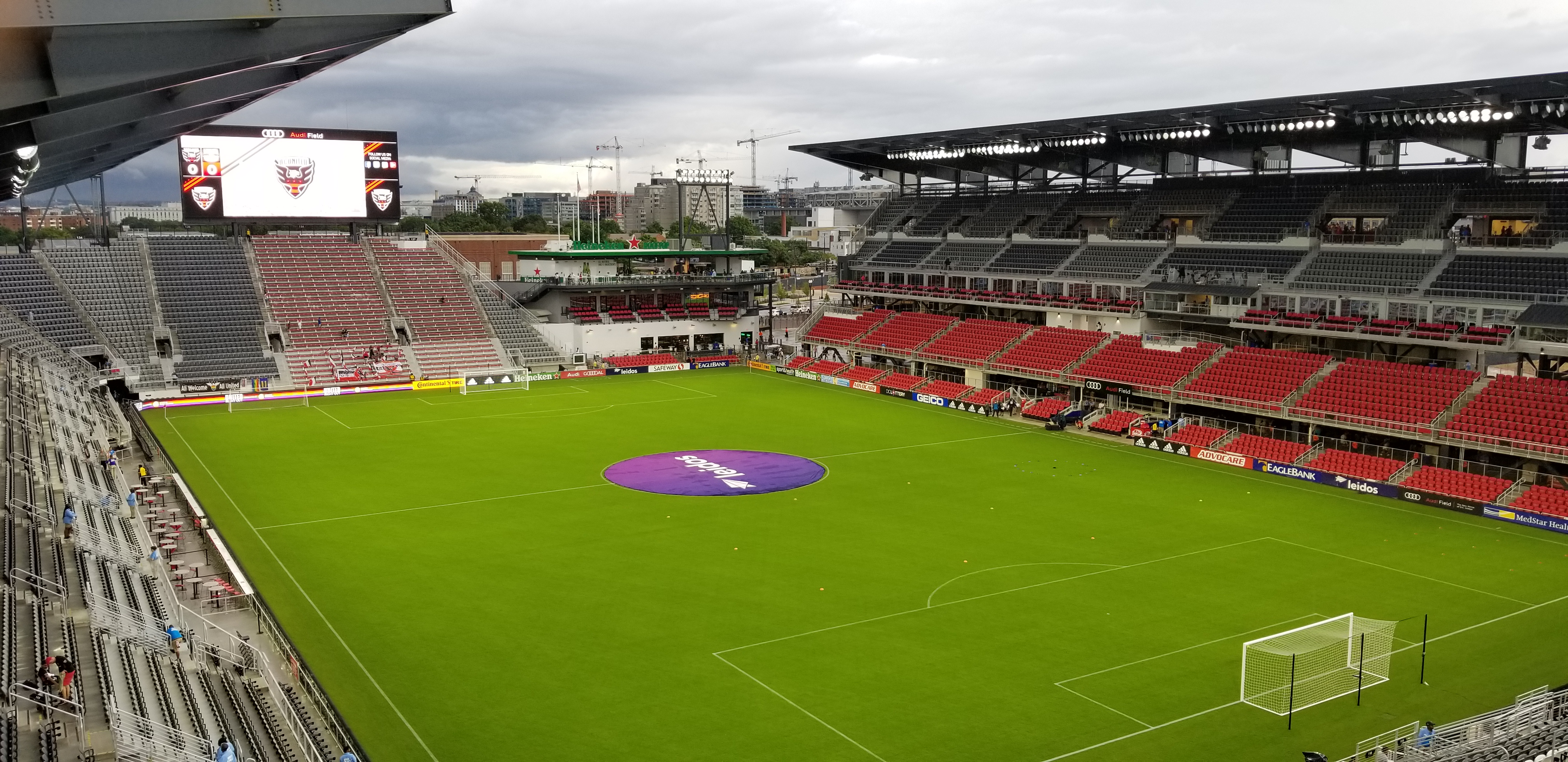 Audi Field before the 7/25/18 DC United game vs. the New York Red Bulls